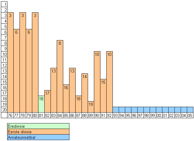 Dutch league positions of FC Wageningen, last 30 seasons